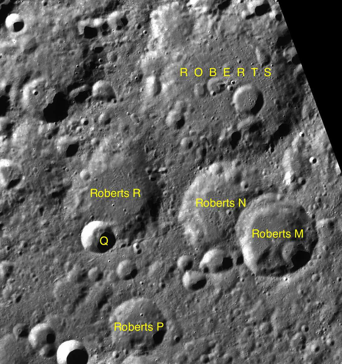 Part of the chart LAC-7 used for the presentation